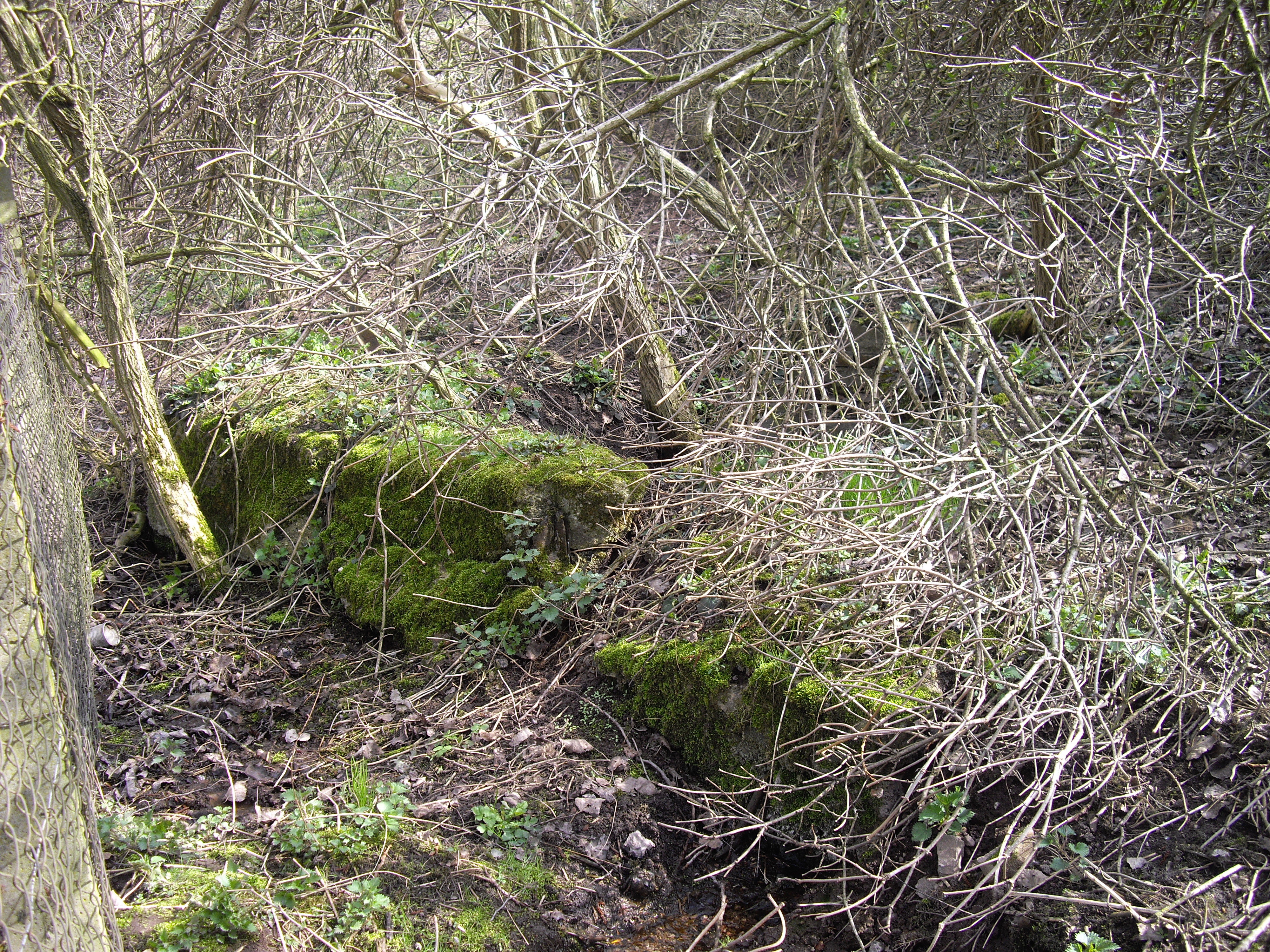 ruins in the abandoned village Lodderstedt near the german town Gerbstedt